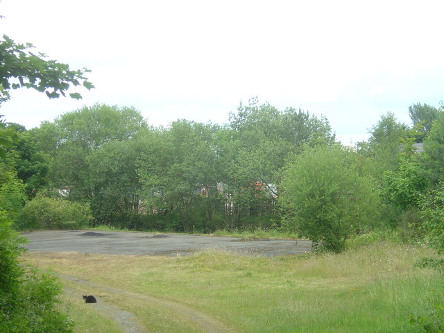 Llanymynech station yard Llanymynech station yard where the Shropshire & Montgomery railway joined the GWR /Cambrian line from Oswestry to Welshpool. The cat is obvious, can you find the rabbit ?